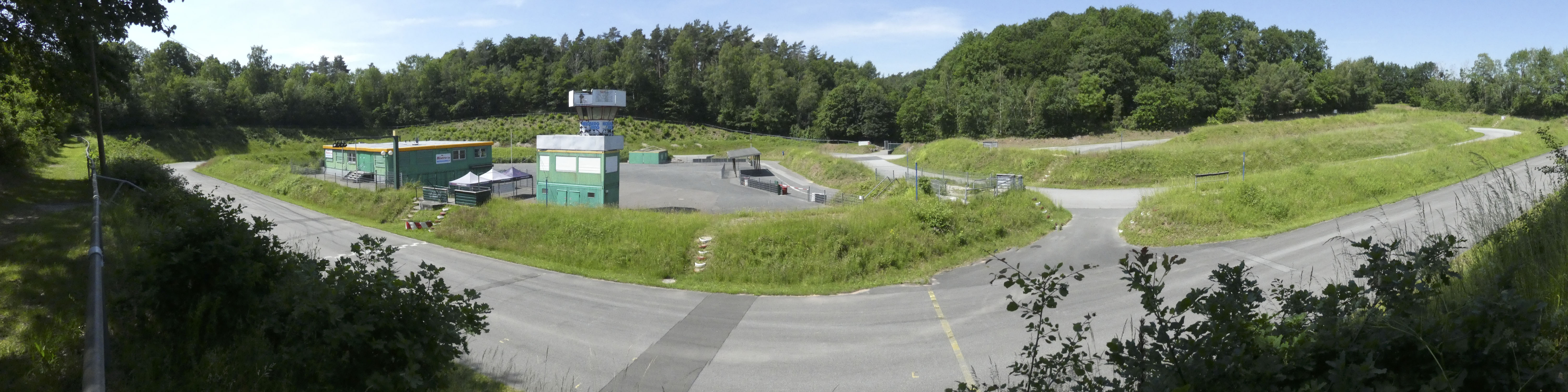 Panoramashot of Heidbergring (Geesthacht, Germany) from eastern direction